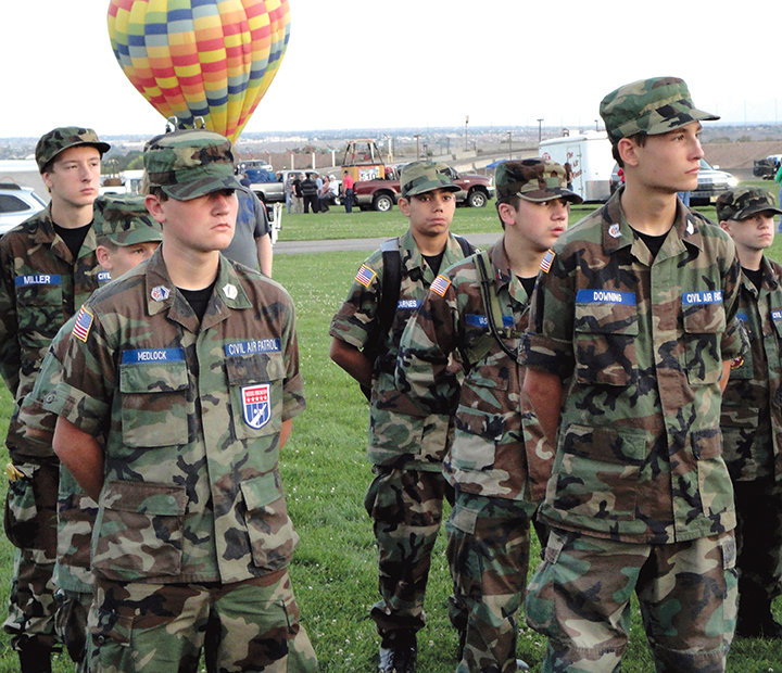 Cadets from the New Mexico Wing of Civil Air Patrol await a briefing before launching hot-air balloons at Albuquerque’s Balloon Fiesta Park on July 13. The New Mexico CAP’s new balloon program allows members to participate in lighter-than-air flight while furthering their aerospace education. (Photo by Lee Ross)